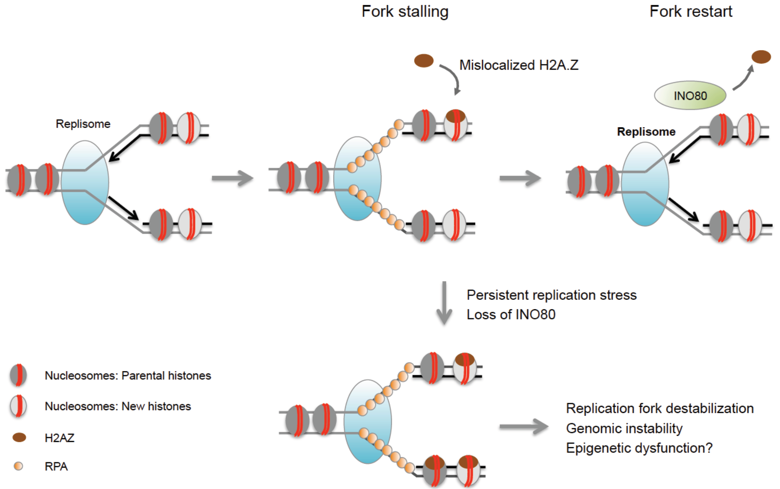 Excess H2A.Z can cause replication defects and genome instability in the absence of the INO80 chromatin remodeler, which facilitates the removal of H2A.Z from chromatin. Aberrant H2A.Z accumulation may alter the epigenetic landscape at sites of replication stress.[1]